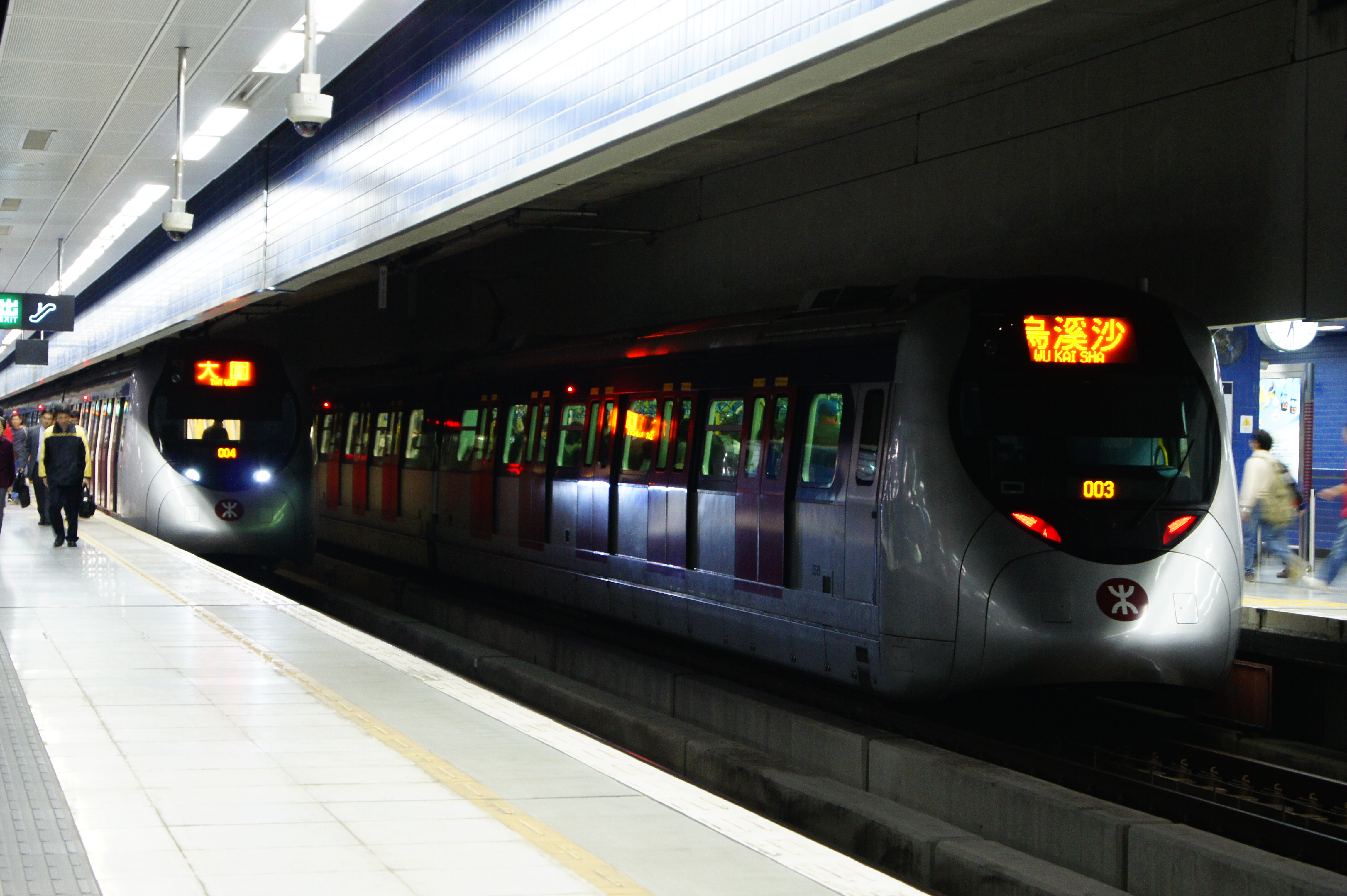 MTR Tai Wai Station Ma On Shan Line platform